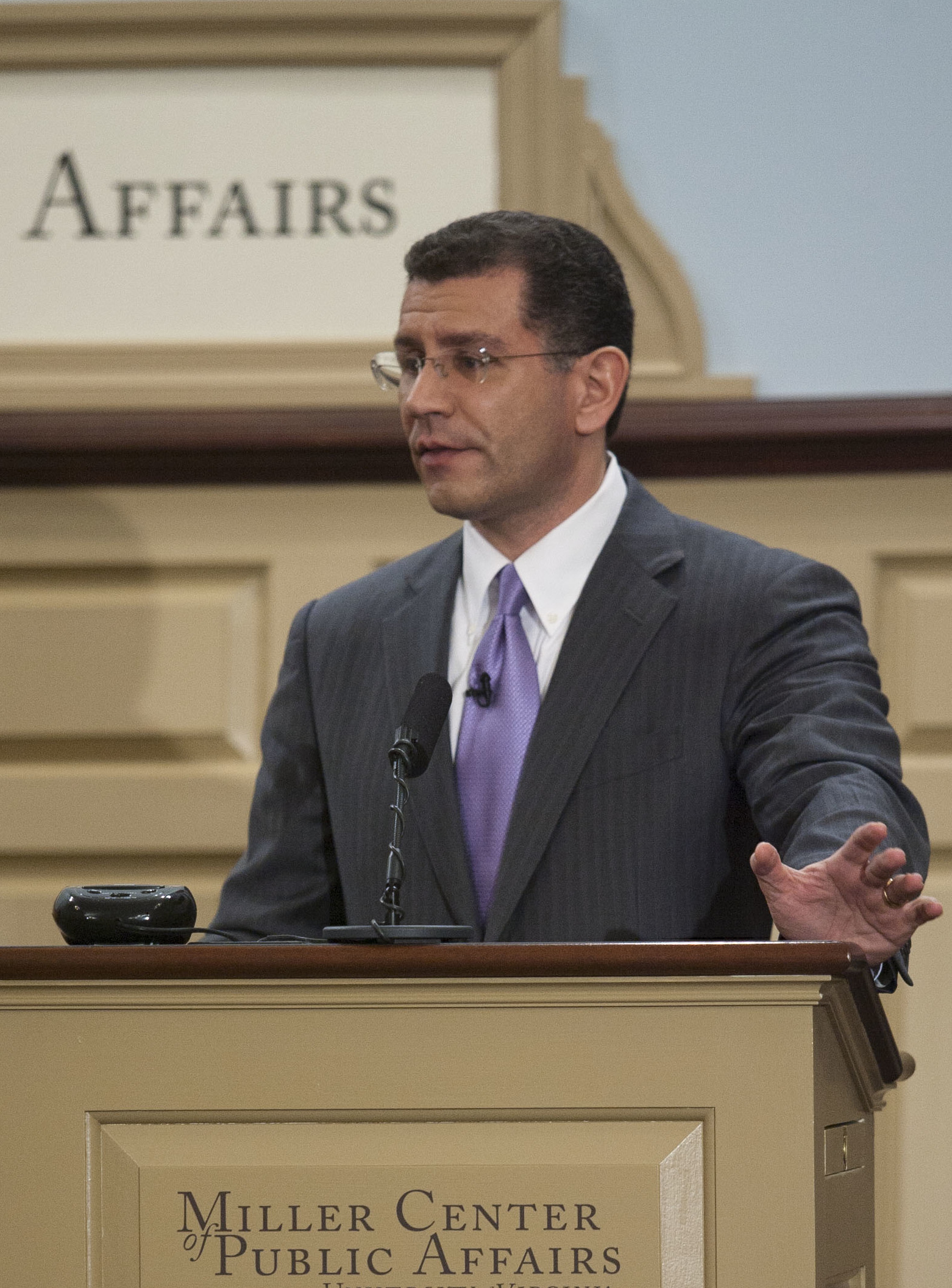 KENNETH M. POLLACK, director of the Saban Center for Middle East Policy at Brookings is an expert on national security, military affairs and the Persian Gulf. He was director for Persian Gulf affairs at the National Security Council. He also spent seven years in the CIA as a Persian Gulf military analyst. He is the author of “A Path Out of the Desert: A Grand Strategy for America in the Middle East." Held February 6, 2012. Miller Center, Charlottesville, VA. For more information, visit